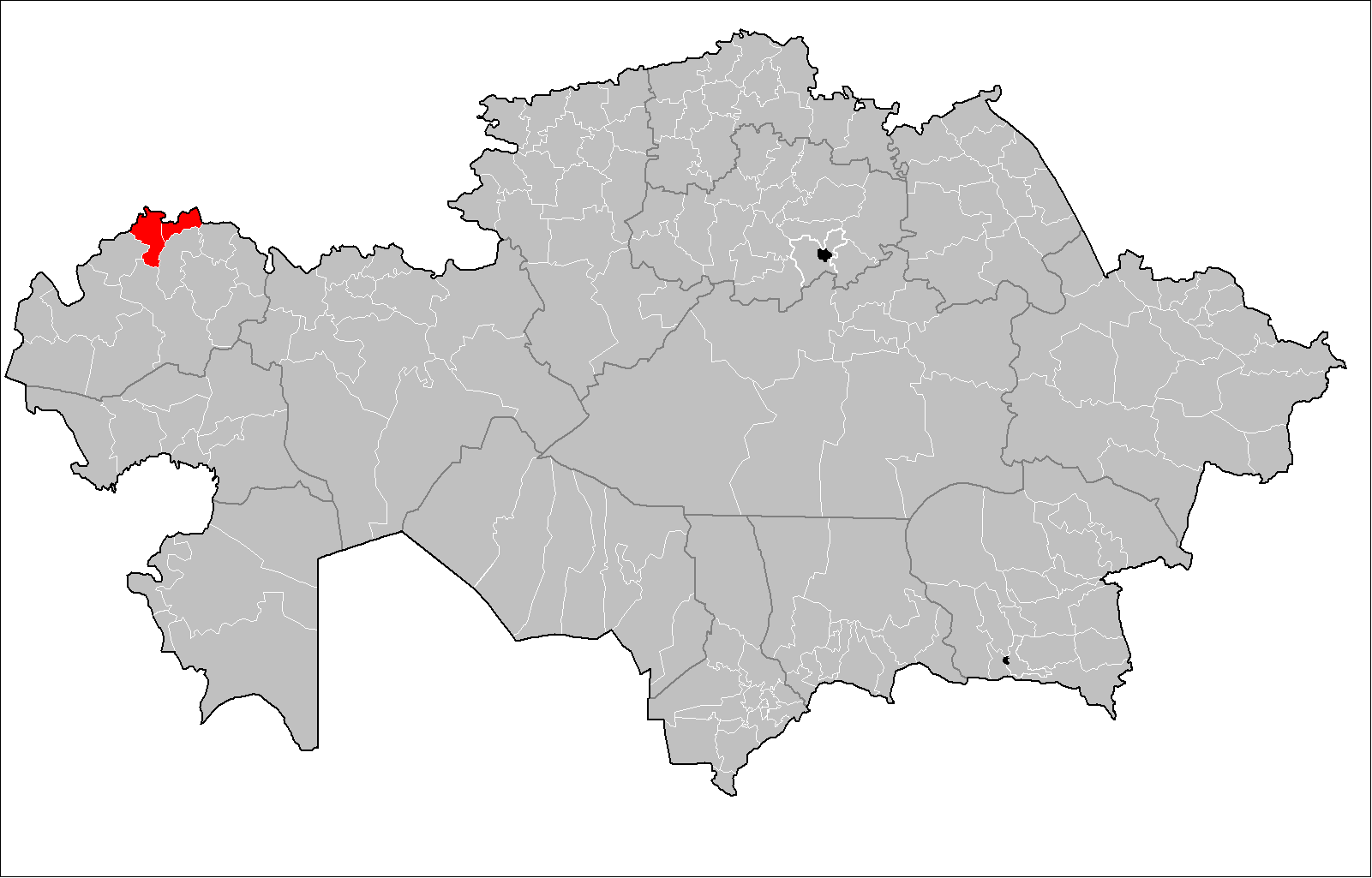 Map of the rayons of Kazakhstan. Created by Rarelibra 16:49, 3 August 2007 (UTC) for public domain use, using MapInfo Professional v8.5 and various mapping resources.